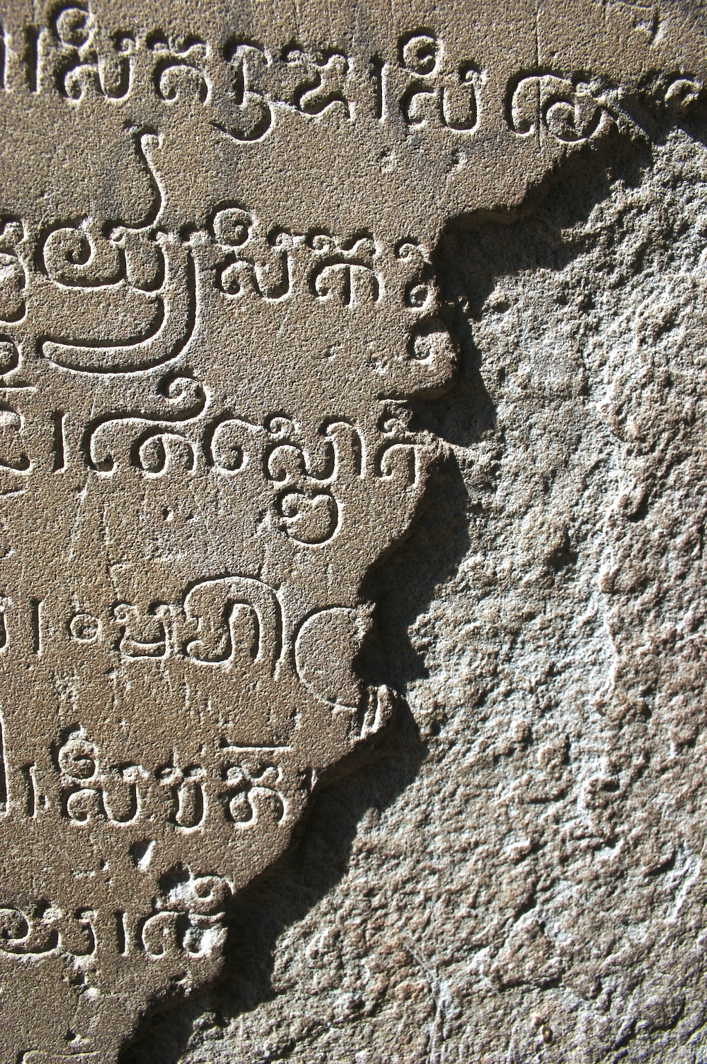 Ancient Khmer script carved in stone